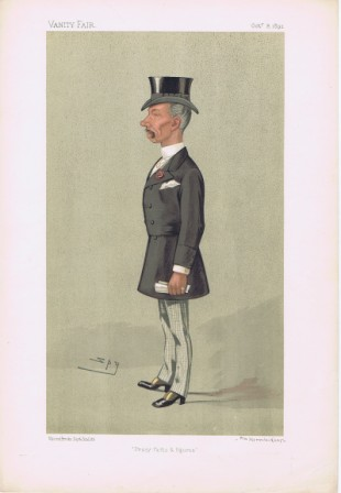 Caricature of Mr John Seymour Keay MP. Caption read "Prosy facts and figures".